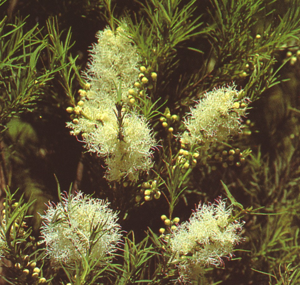 Tea tree plant where the tea tree oil extracted from. Tea tree oil is best home remedy for treatment of athlete's foot